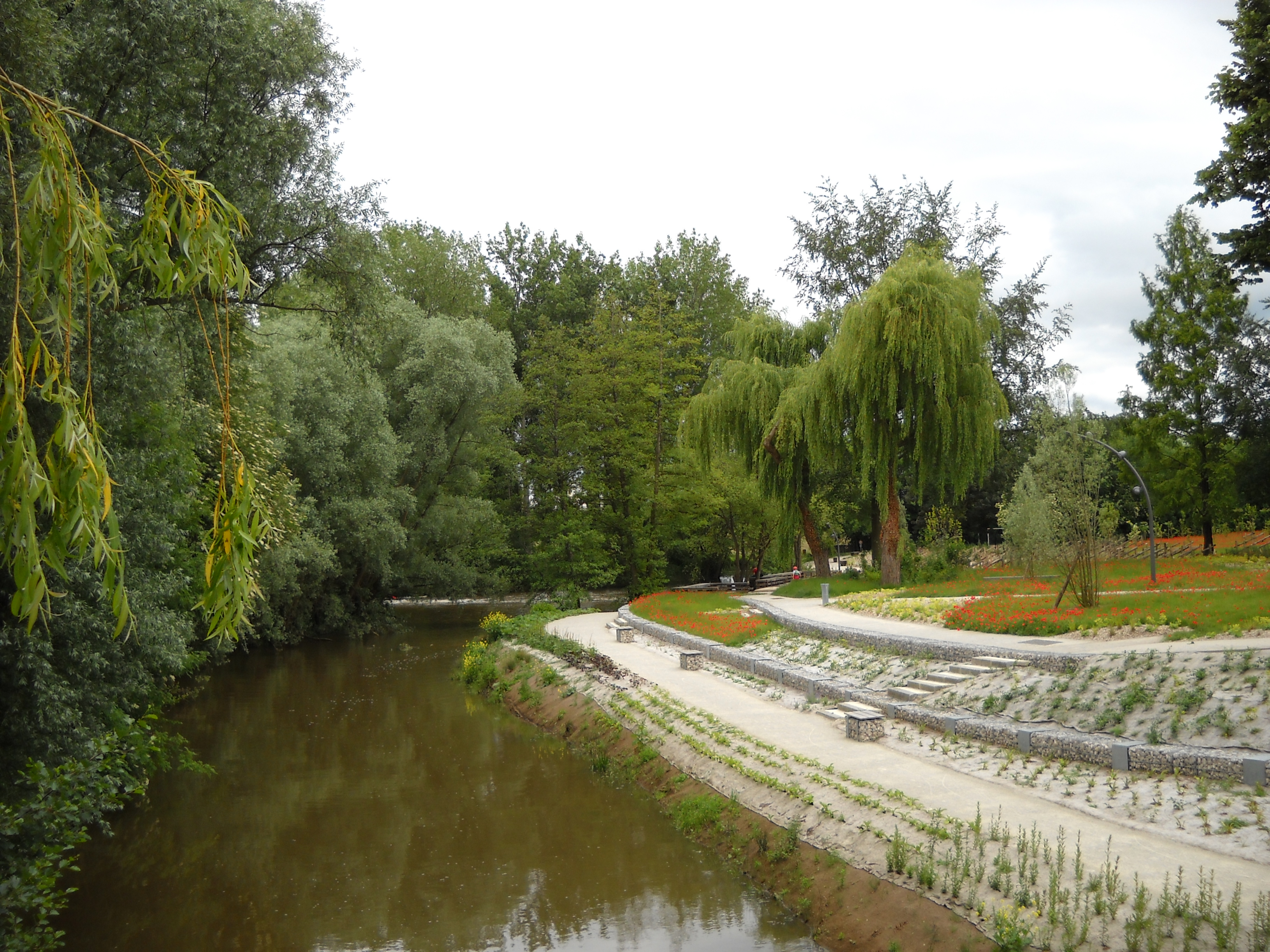 River Orne, in Argentan, Orne, France.